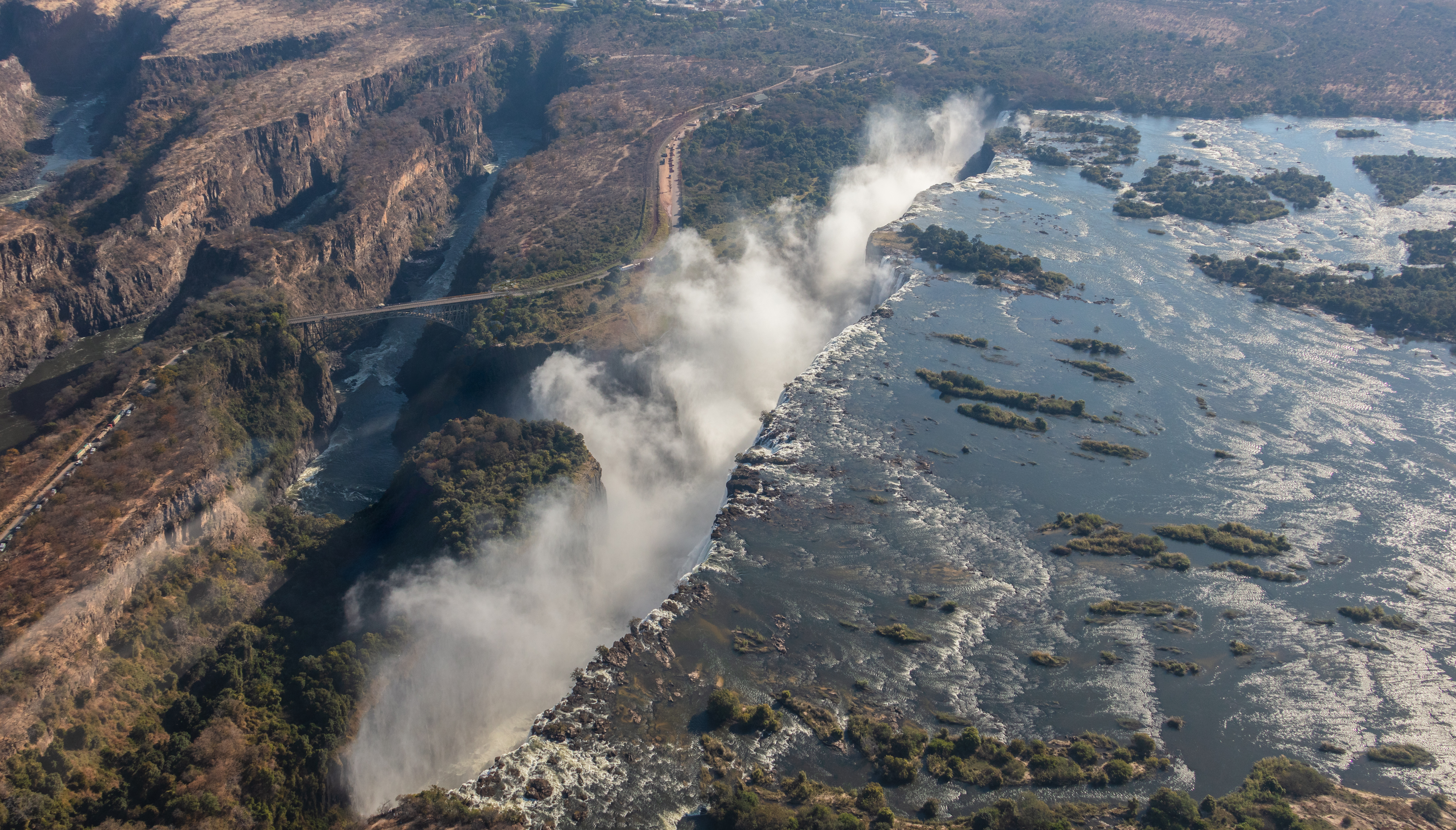 Victoria Falls, Zambia-Zimbabwe